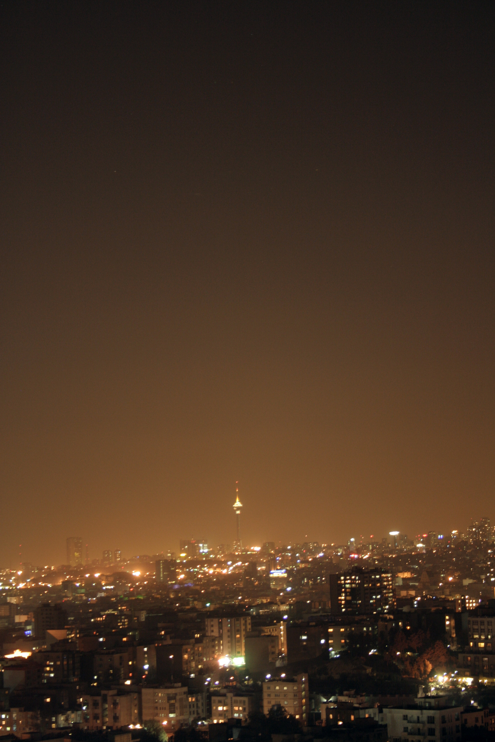 Tehran & Milad Tower at night